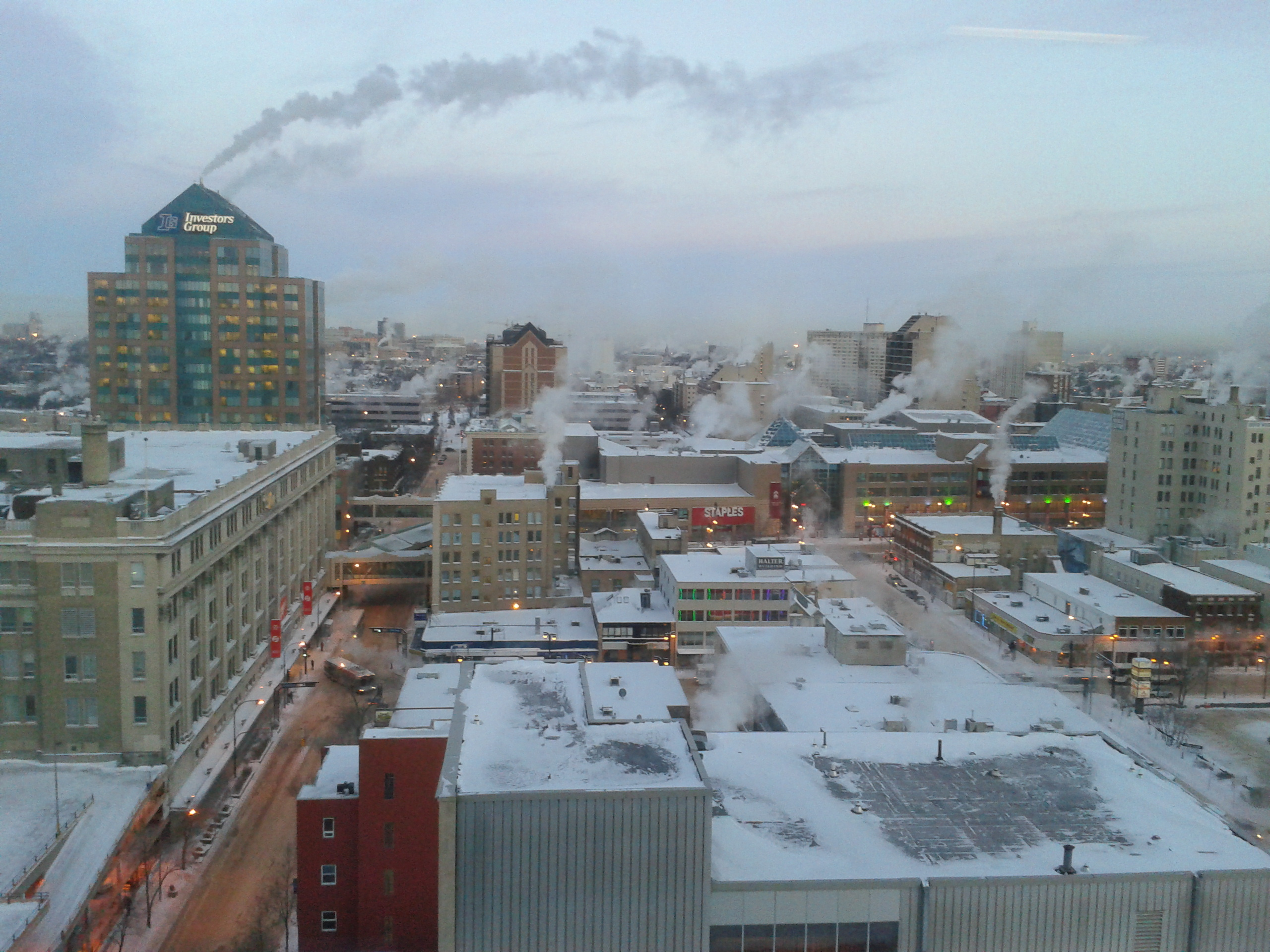 30C morning in Winnipeg